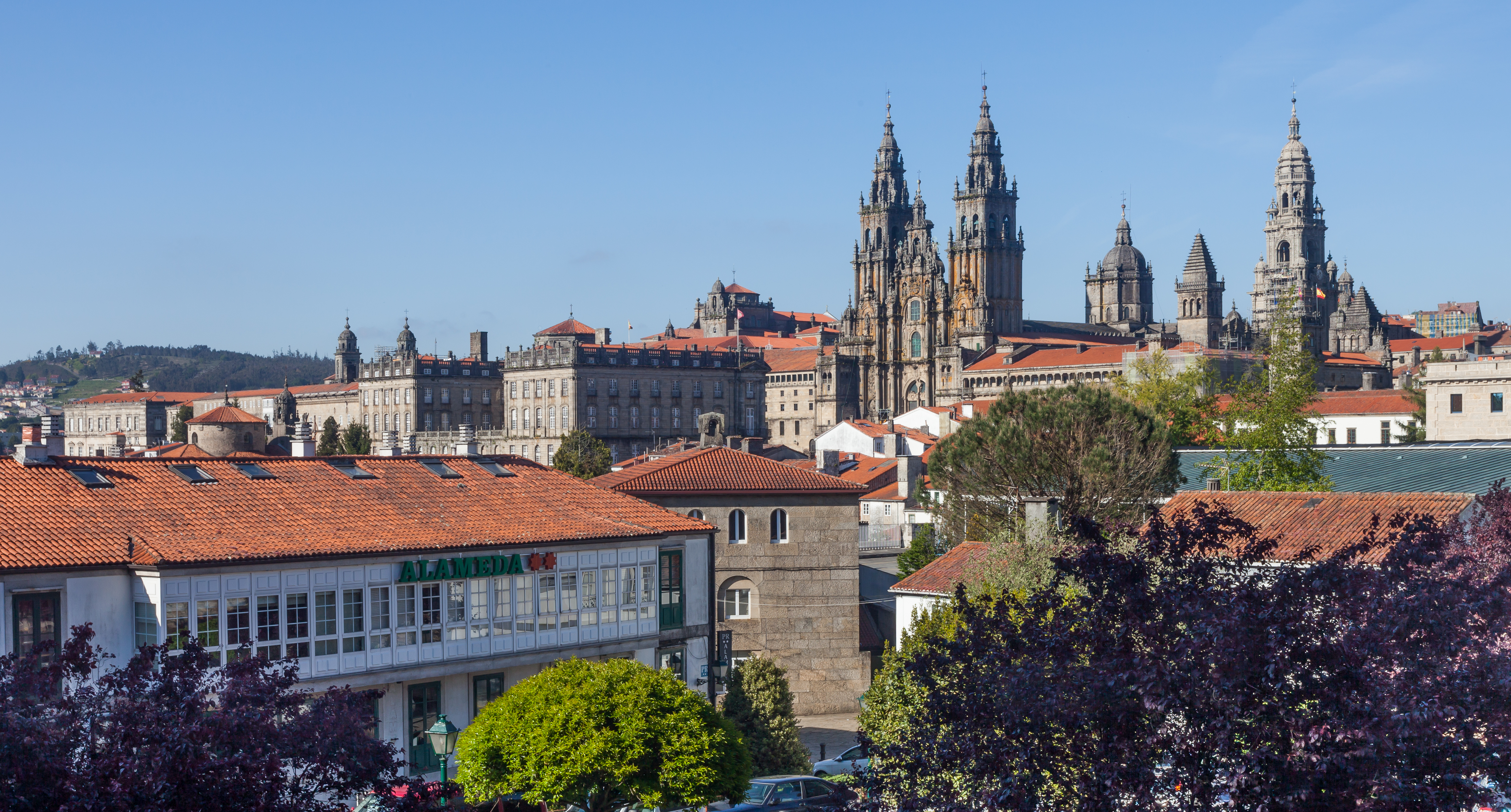 Cathedral and rear of the Manor House of Raxoi, Santiago de Compostela, Galicia (Spain).